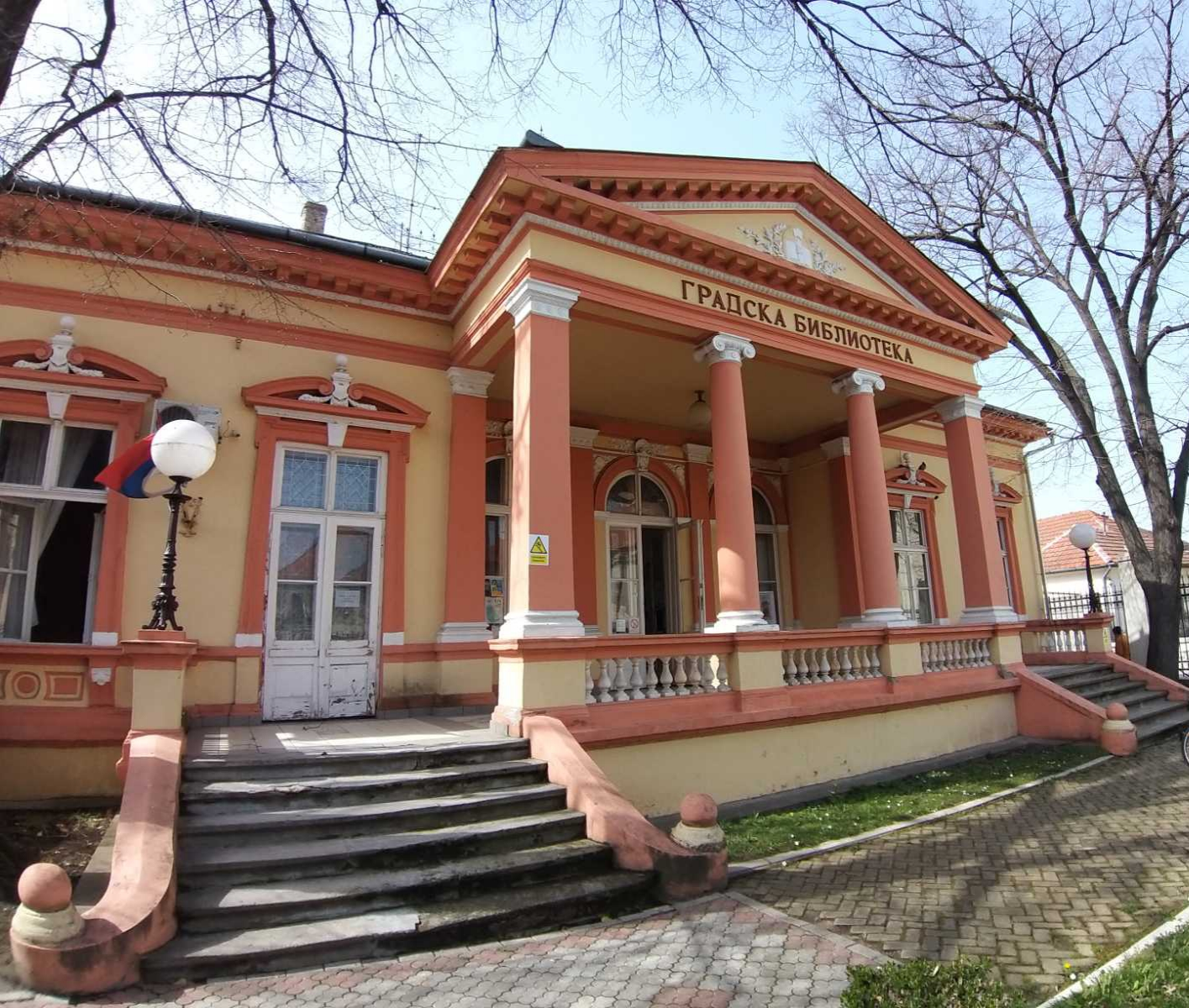 Dečje odeljenje20